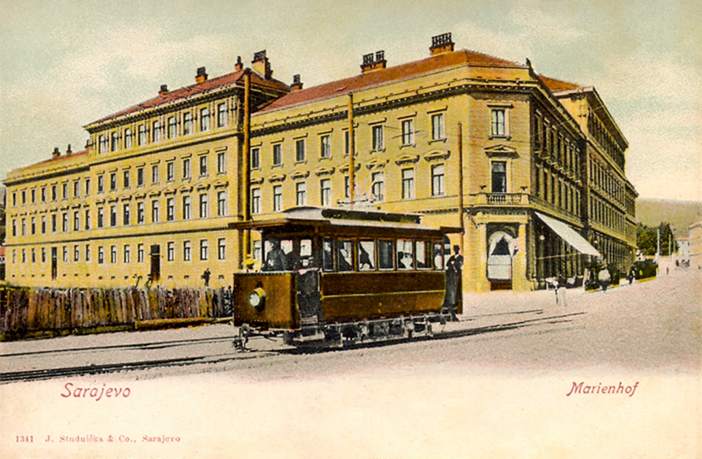 The first full-time tram line was in Sarajevo. Austria-Hungary chose Sarajevo as the city to have the first full time dawn to dusk operational tram line since it was revolutionary for those times. It was experimental at first, but, in the end, became Europe's first city with a full time tram line. From the national museum of Bosnia and Herzegovina